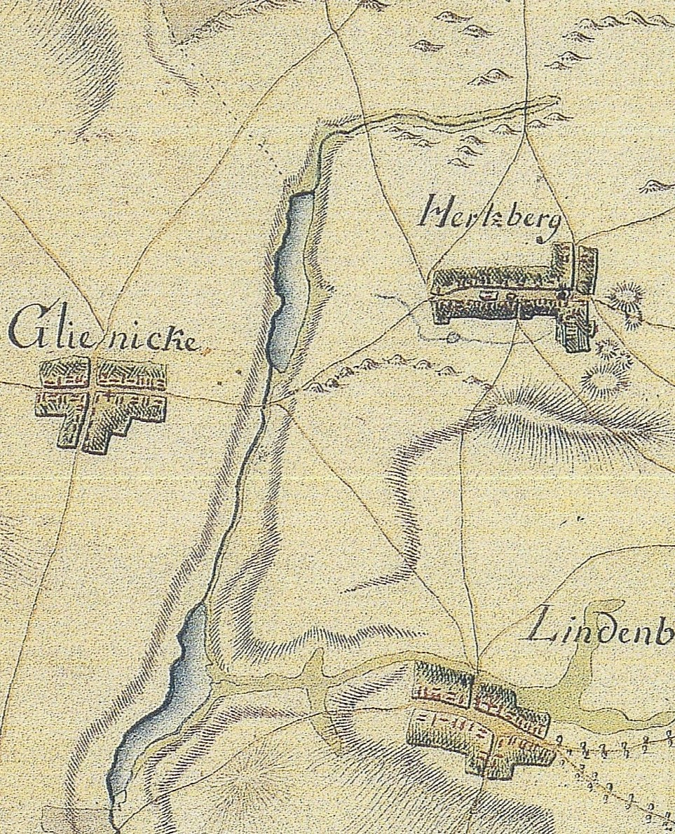 Extract of a Schmettau map from 1767/1787 with a part of the today’s District Oder-Spree, Brandenburg, Germany. The map shows the villages Herzberg, Glienicke (today parts of the municipality Rietz-Neuendorf) and Lindenberg (part of the municipality Tauche). It shows also the northern part of the Blabbergraben with the Herzberger lake und Lindenberger lake. Today, the first part of the Blabbergraben towards the Herzberger See exists still in a rudimentary form.